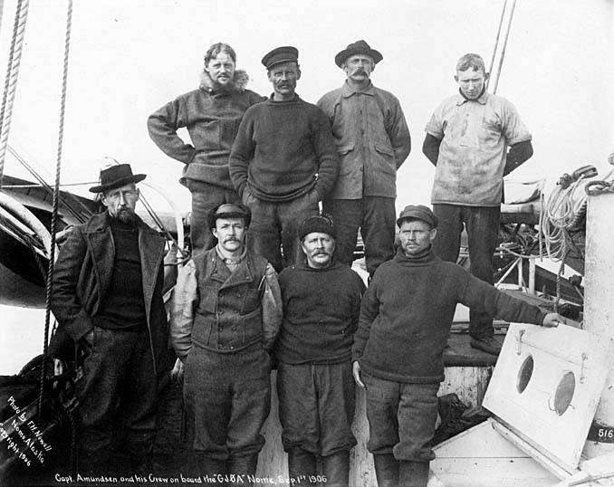 Caption on image: Capt. Amundsen and his crew on board the GJOA, Nome, Sep 1st, 1906. Photo by F.H. Nowell, Nome, Alaska, Copyright 1906Amundsen, Roald (1872-1928), Norwegian polar explorer, born in Borge, and educated at the University of Christiania (now the University of Oslo). He entered the Norwegian navy in 1894 and spent the following nine years studying science. From 1903 to 1906 he led his first important expedition in the small sloop Gjöa. During this voyage he sailed successfully through the Northwest Passage from the Atlantic to the Pacific Ocean and determined the position of the north magnetic pole. His next expedition (1910-1912) sailed in a larger ship, the Fram, and gained fame as one of the most successful undertakings in the history of Antarctic exploration. With his companions, he lived in Antarctica for more than a year, conducting explorations and scientific investigations. On December 14, 1911, he reached the South Pole, becoming the first person known to have accomplished this feat. (MSN Encarta) Subjects (LCTGM): Explorers--Norwegian--Alaska--Nome; Sailors--Alaska--Nome; Group portraits Subjects (LCSH): Amundsen, Roald, 1872-1928